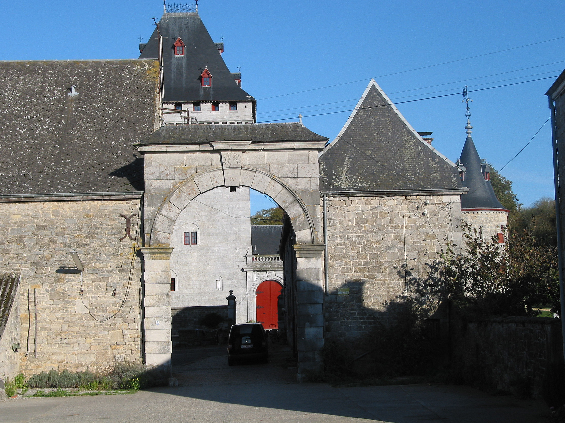 Hargimont (Belgium) : the Jemeppe Castle (XVIth century) farm portal.